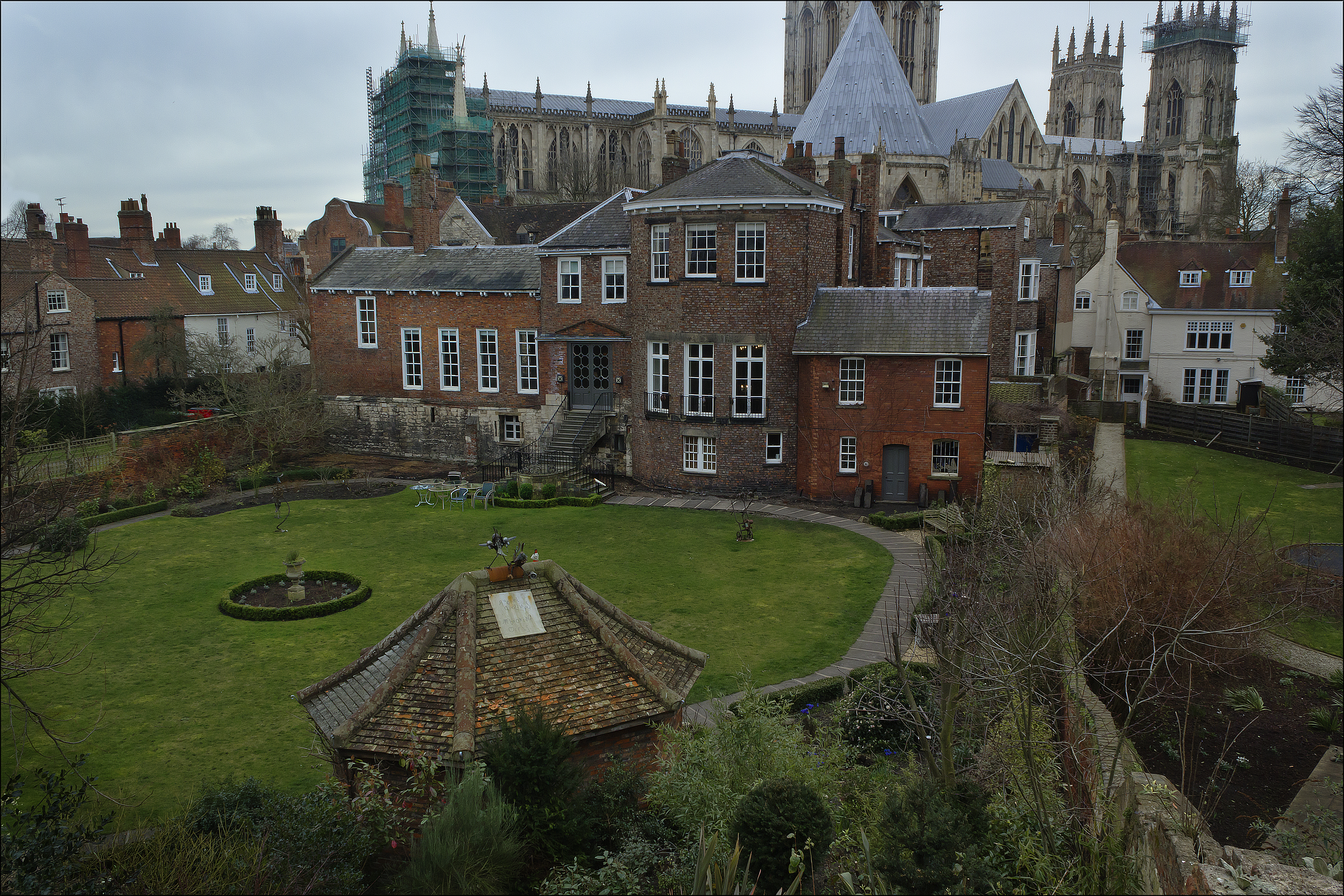 A view from the city walls, York.